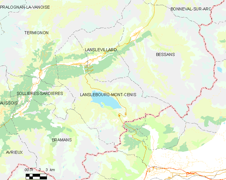 Map of French municipality